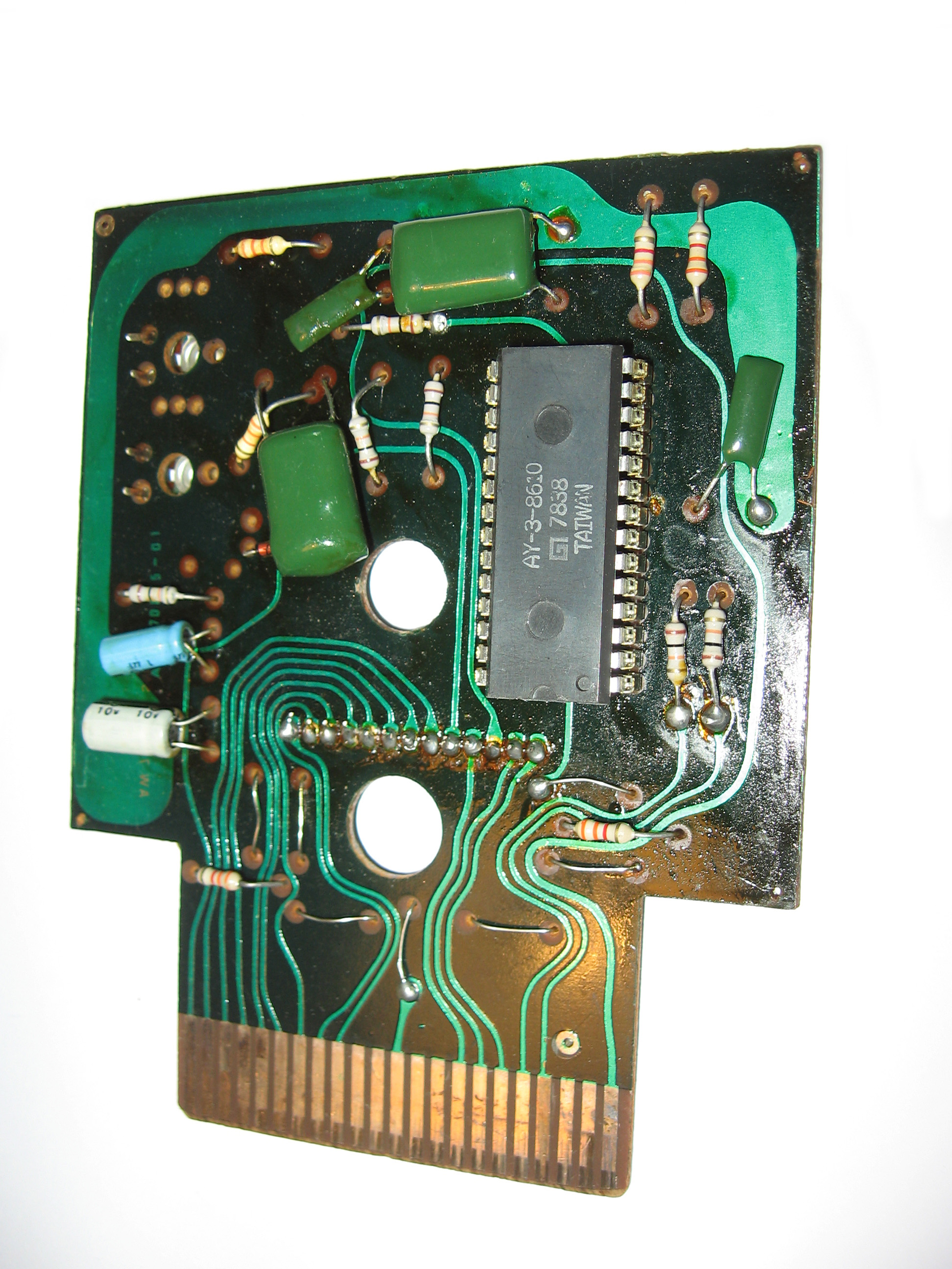 The rear-facing side of the internal PCB of a game cartridge based around the GI AY-3-8610. This one was designed for the Prinztronic Tournament Colour Programmable 2000, though I believe it may also work with other consoles.